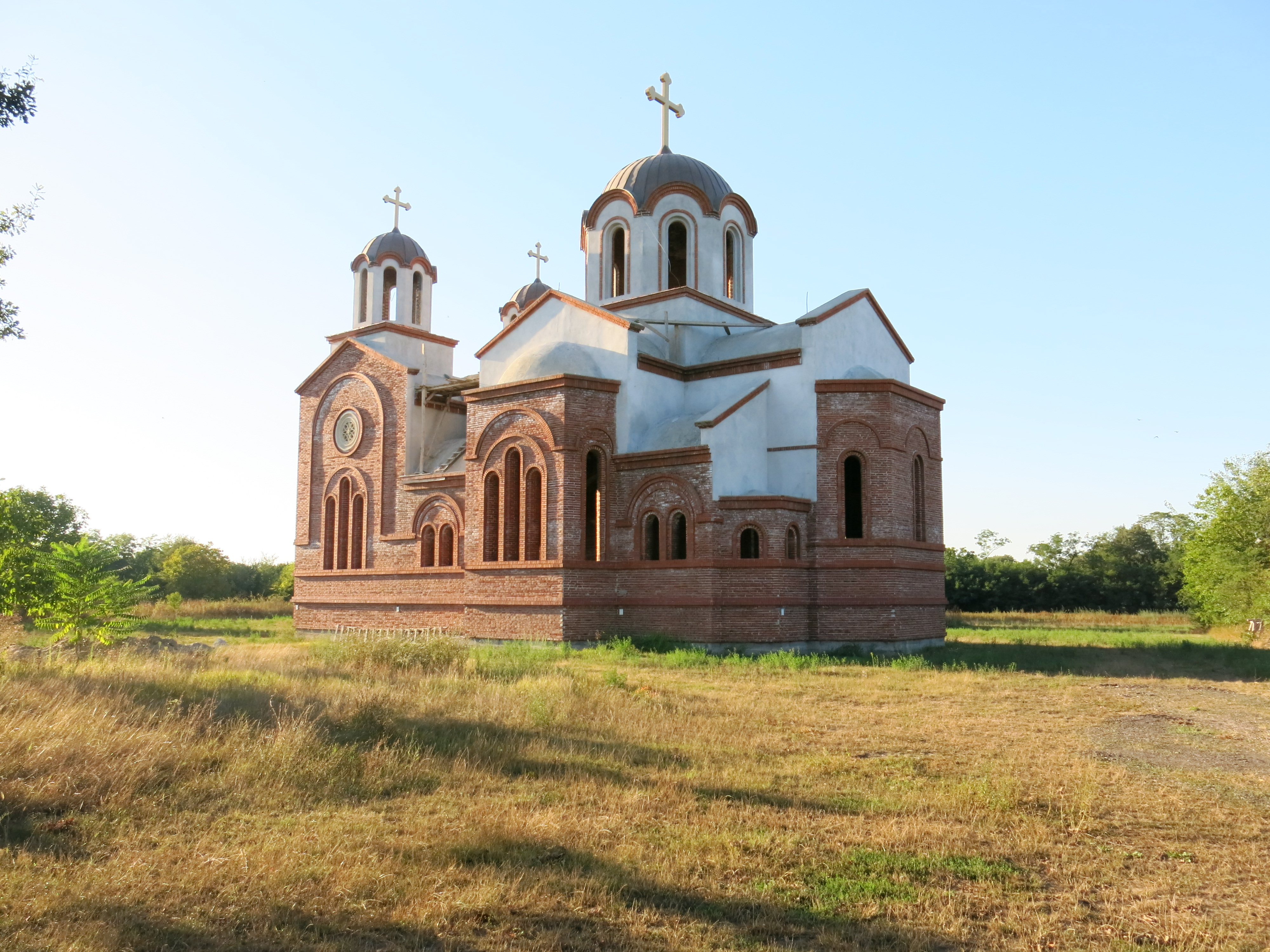 Lugavčina, Temple of Saint Nicholas